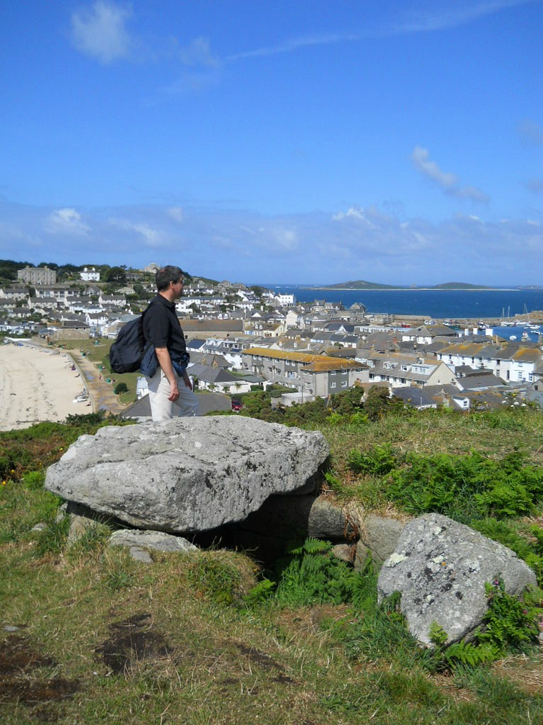 buzza hill, st mary's, isles of scilly